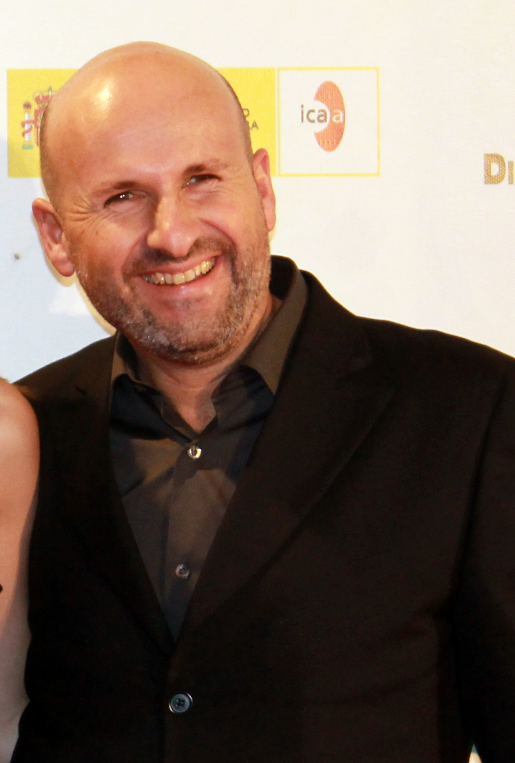 Xavi Puebla, Spanish film director.